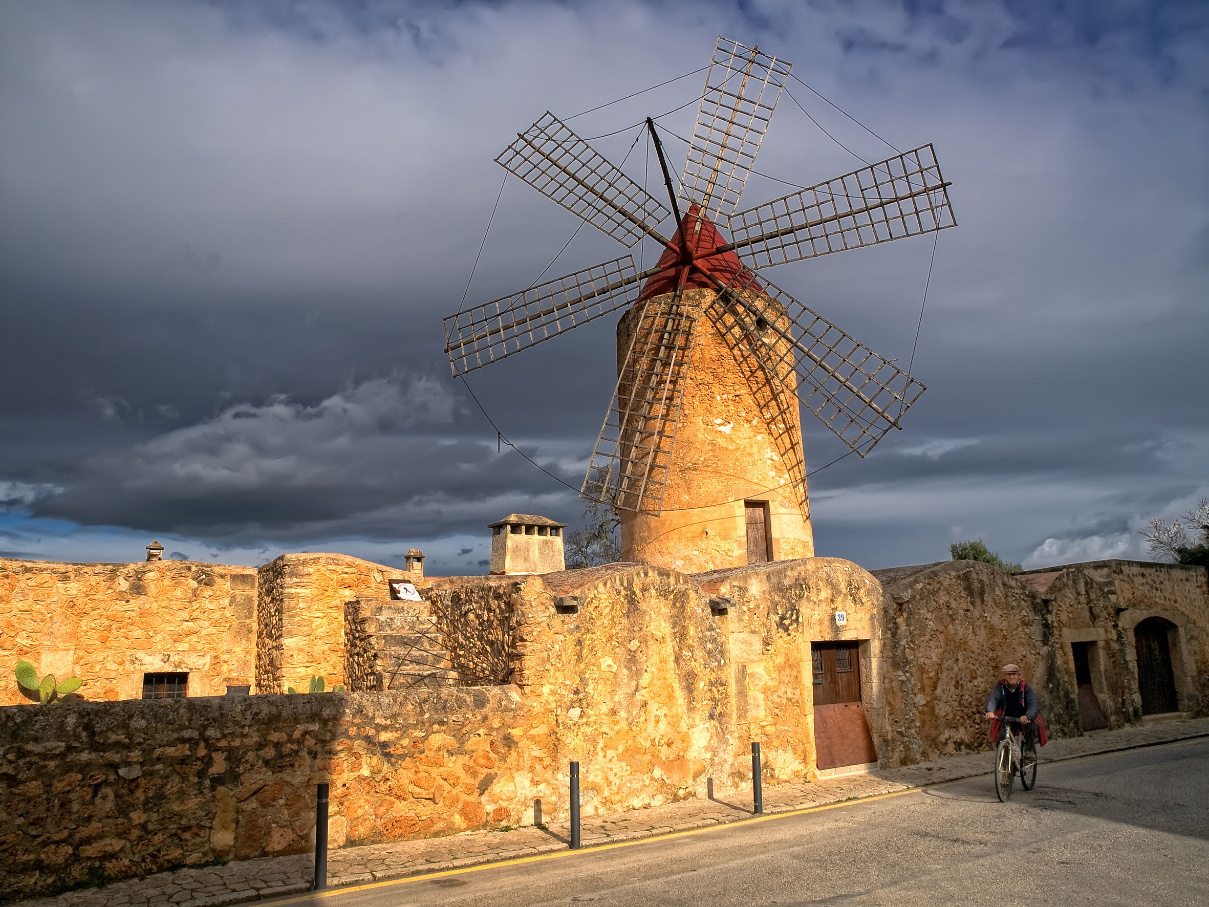 Windmill of Algaida (Mallorca)